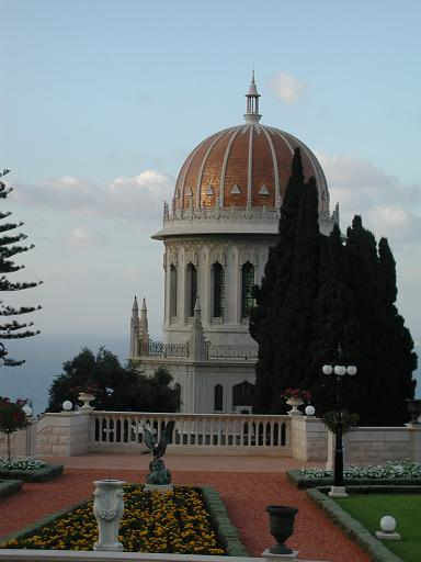 the Shrine of the Bab at the Bahá'í center - Haifa, Israel